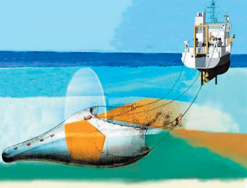 NOAA RV Henry B. Bigelow's trawl net is computer monitored.